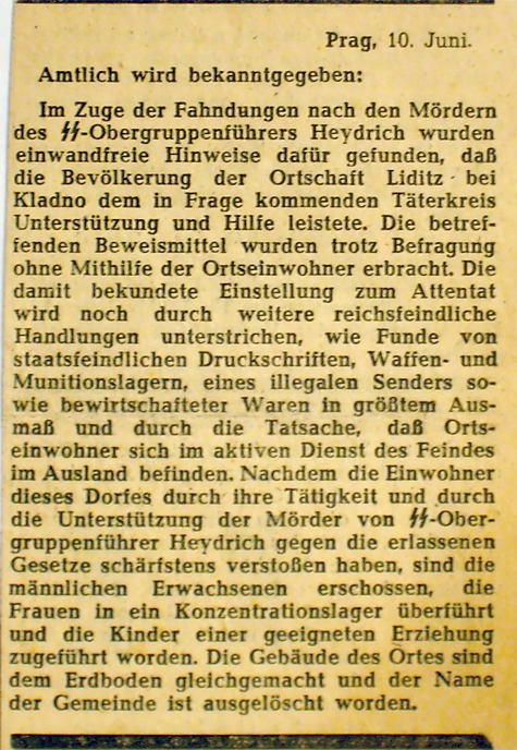 Announcement of the massacre of Lidice on the 10th of June 1942 as a revenge to the assassination of the defacto chief of the Protectorate of Bohemia and Moravia Heydrich. This is a photography of the official bulletin in the german governmental-newspaper "Der Neue Tag" edited in Prague in the Reichsprotektorat Böhmen und Mähren. The newspaper "Der Neue Tag", a newspaper in German, served as a means with which the Nazis under the government of Heydrich 1942 wanted to suppress the Czech people